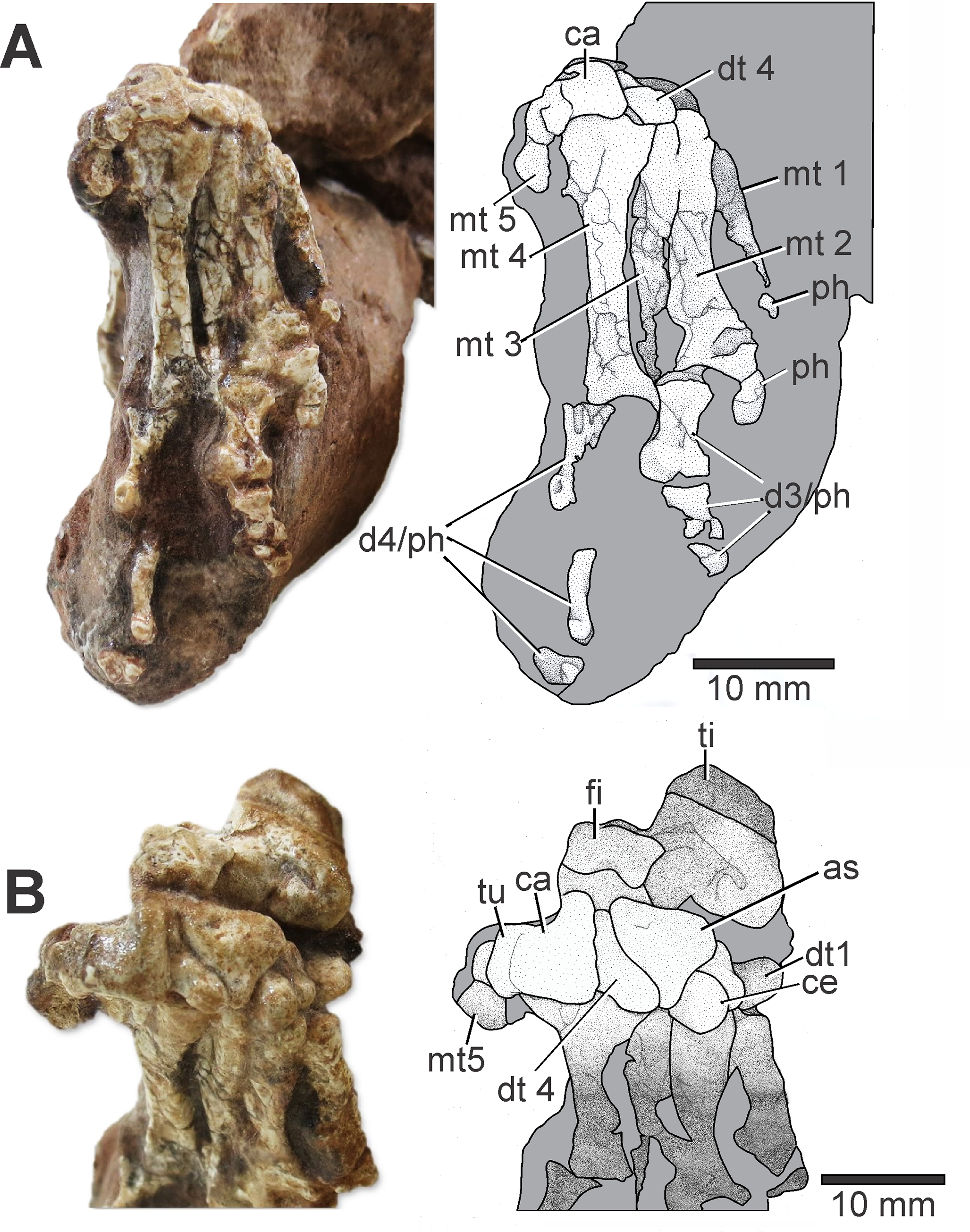 Plantar (A) and posteroplantar (B) views of the pes of Elessaurus gondwanoccidens (UFSM 11471) from the Sanga do Cabral Formation (Lower Triassic), Brazil. Photographs and explanatory drawings respectively. Abbreviations (A): ca, calcaneum; dt 4, distal tarsal 4; mt. metatarsal 1–5; d3—d4, digits; ph, phalange. (B) ti, tibia; fi, fíbula; ca, calcaneum; as. astragalus; tu, calcaneal tuber; mt, metatarsal 5; dt 1, distal tarsal 1; ce, centrale; dt 3, distal tarsal 3; dt 4, distal tarsal 4.